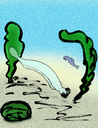 Reconstruction of the basal arrow worm, Capinatator praetermissum, of the Middle Cambrian Burgess Shale laggerstatte.